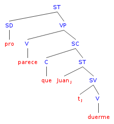 Complex sentence with an explicit subordinate clause